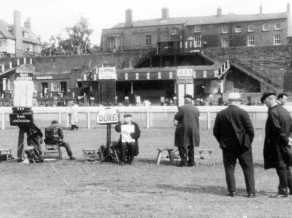 Bookkeeper